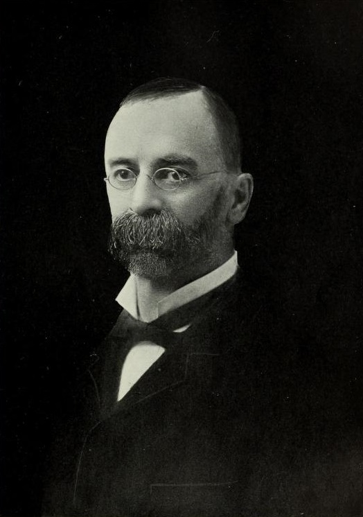 Portrait of Stephen Moulton Babcock